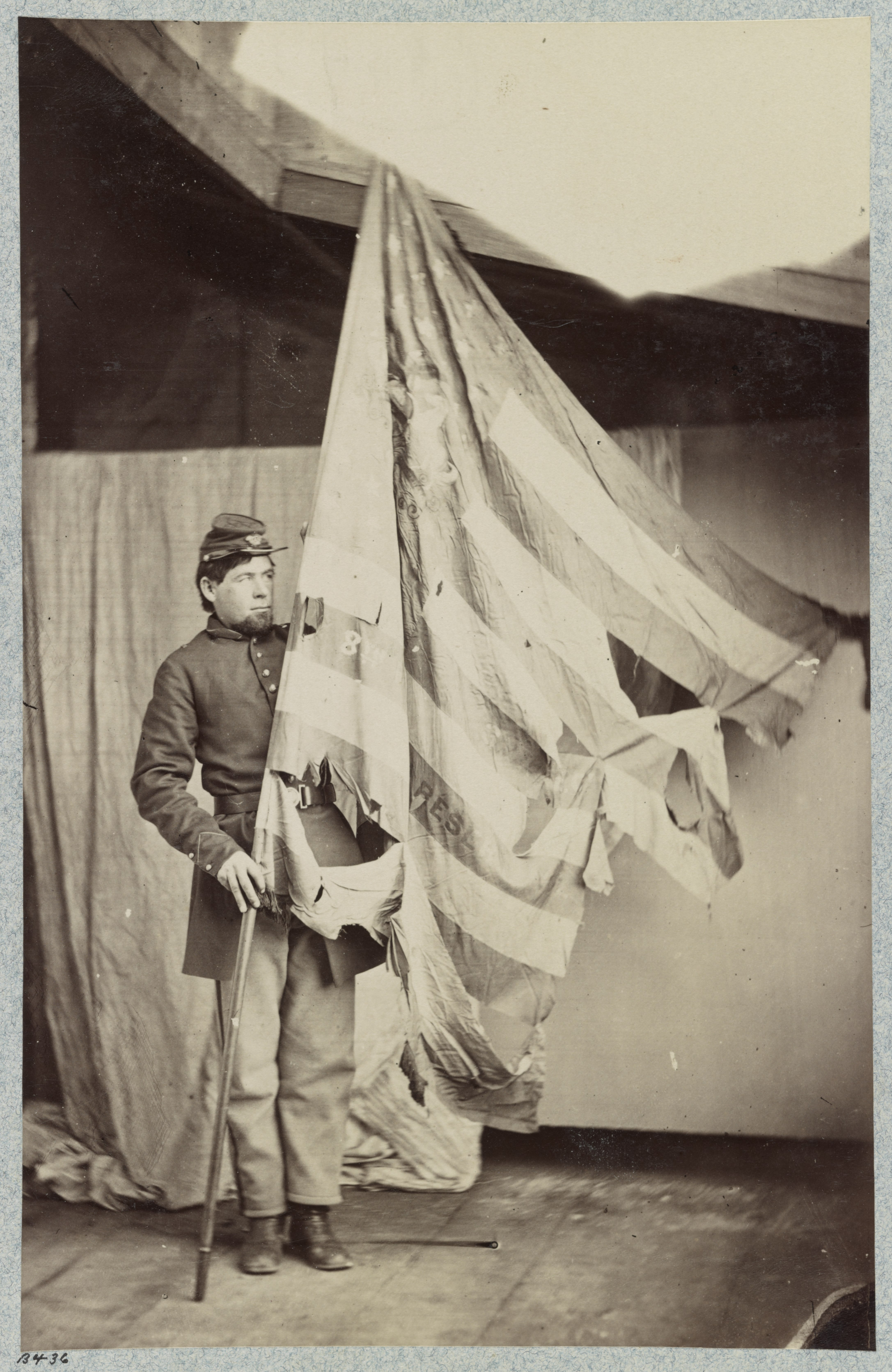 Title: Flag of 37th Pennsylvania Infantry Abstract: Photograph shows unidentified Union soldier holding the battered flag of the 37th Pennsylvania Infantry. Physical description: 1 photographic print on card mount : albumen. Notes: No. B436.; Gift; Col. Godwin Ordway; 1948.; Title from item.